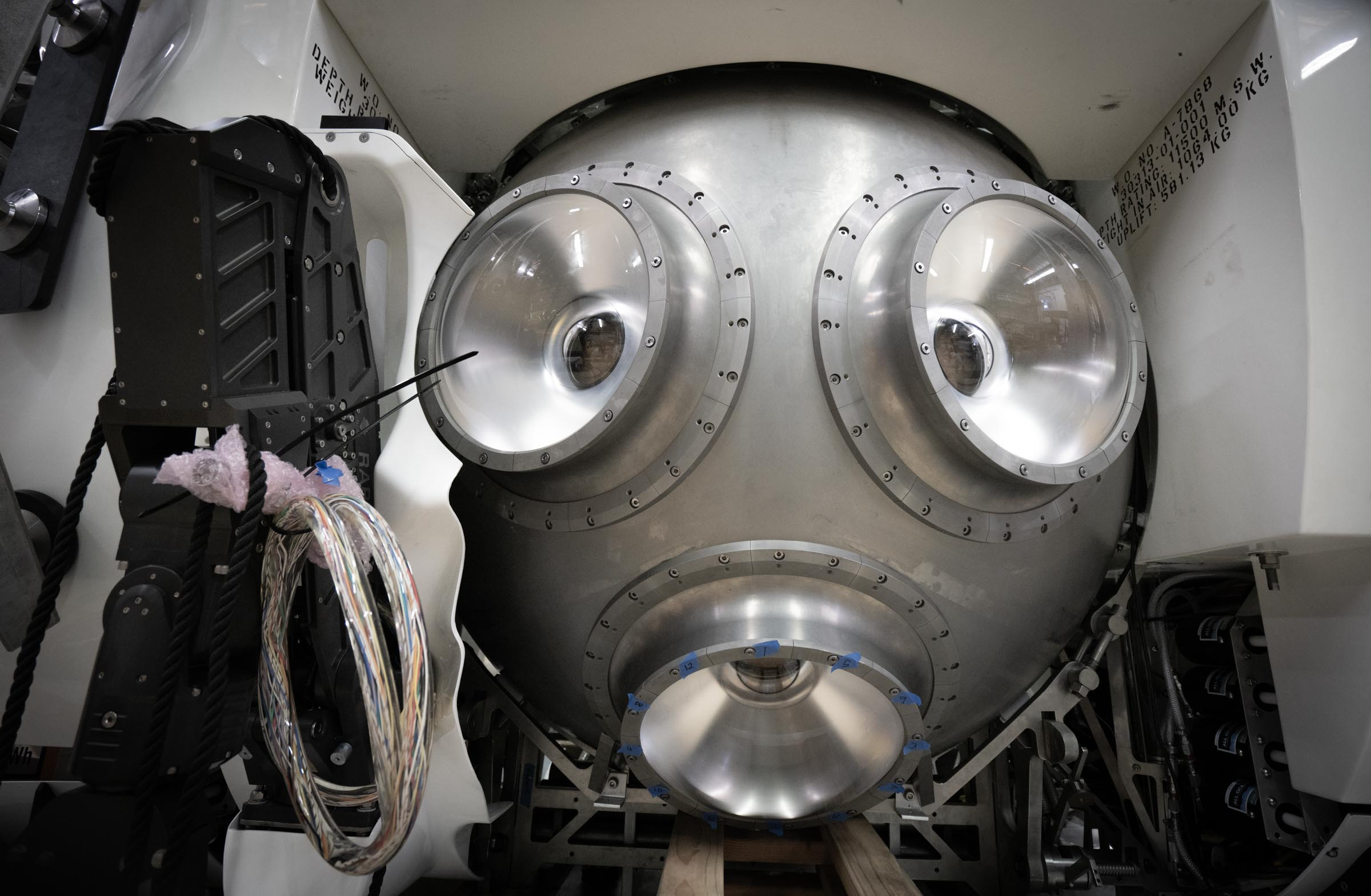 view of Limiting Factors`Titanium sphere with the acrylic viewports installed